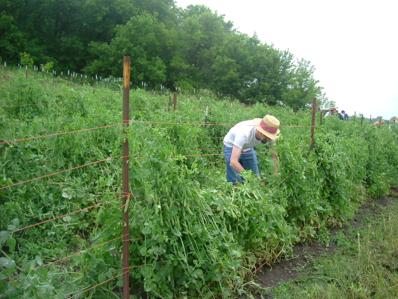 The annual sugar snap pea pick at Vermont Valley Farm